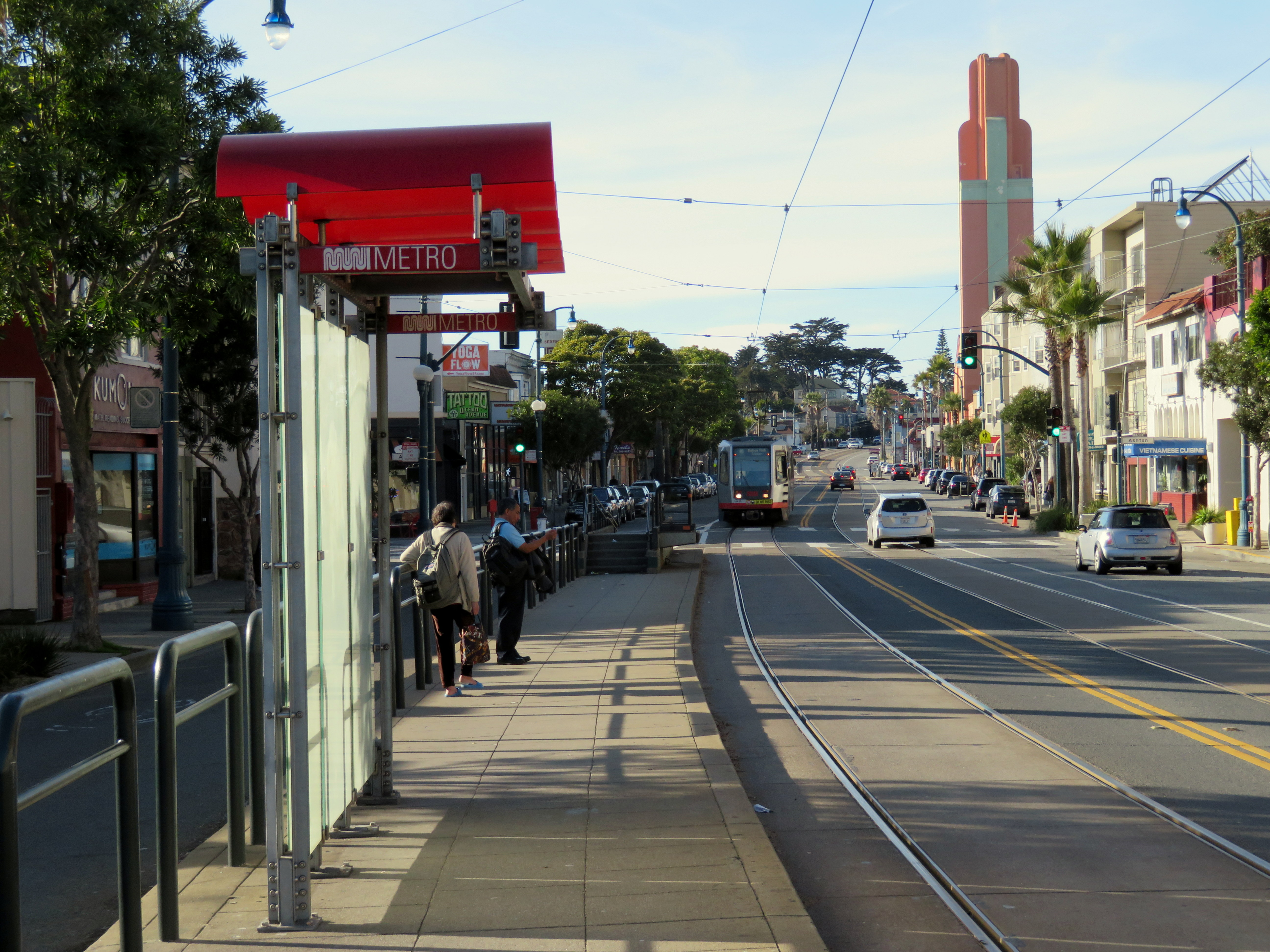 Ocean and Jules station in January 2018 with an outbound train approaching